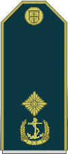 Serbian military ranks and insignia